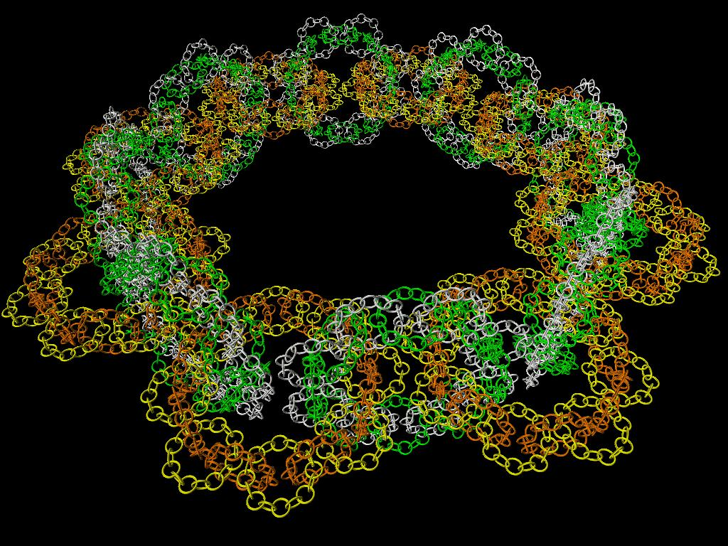 Antoine's necklace. Figure used in topology, in relation with Cantor's set.